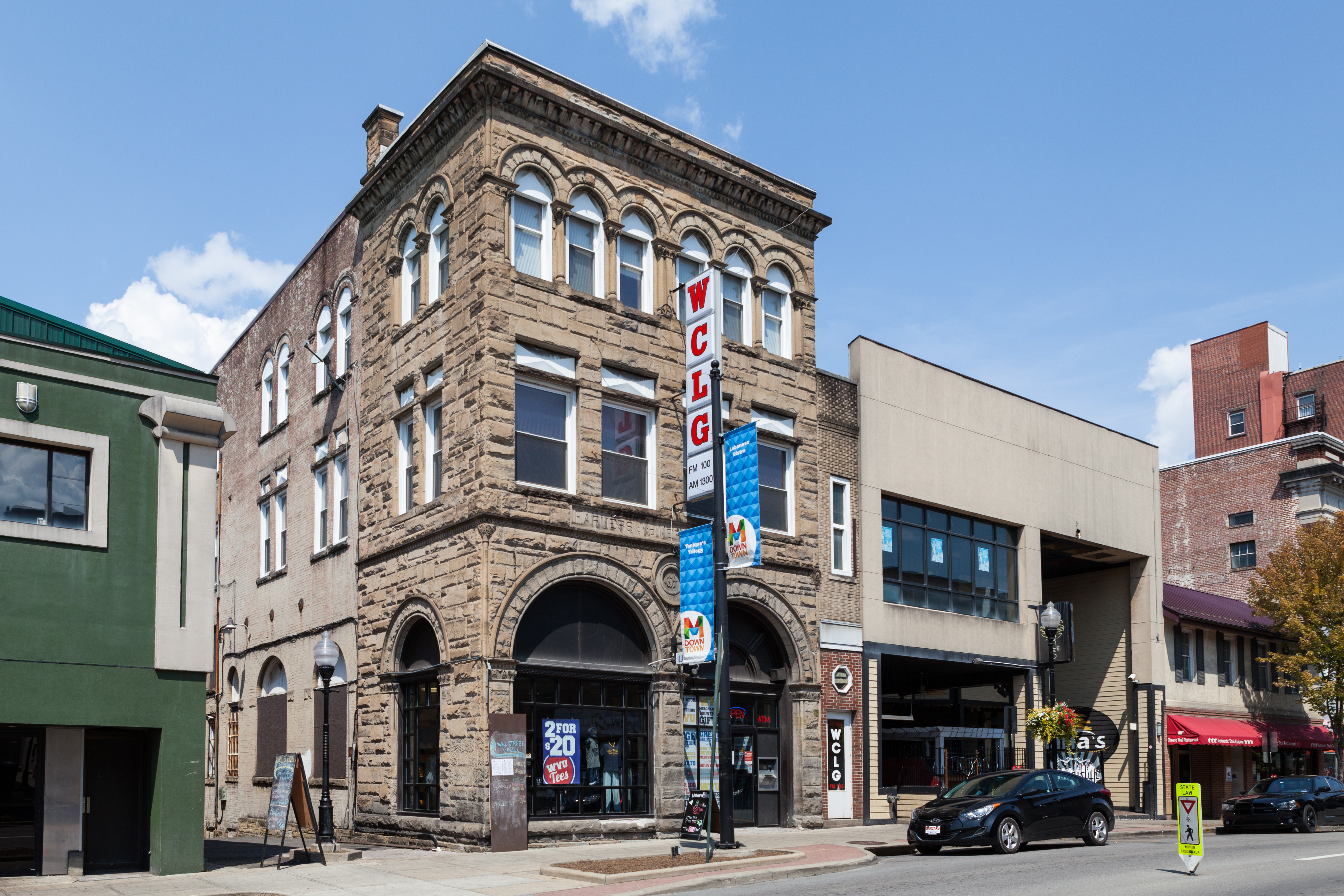 Studio building of WCLG and WCLG-FM, at 343 High Street in Morgantown, West Virginia.